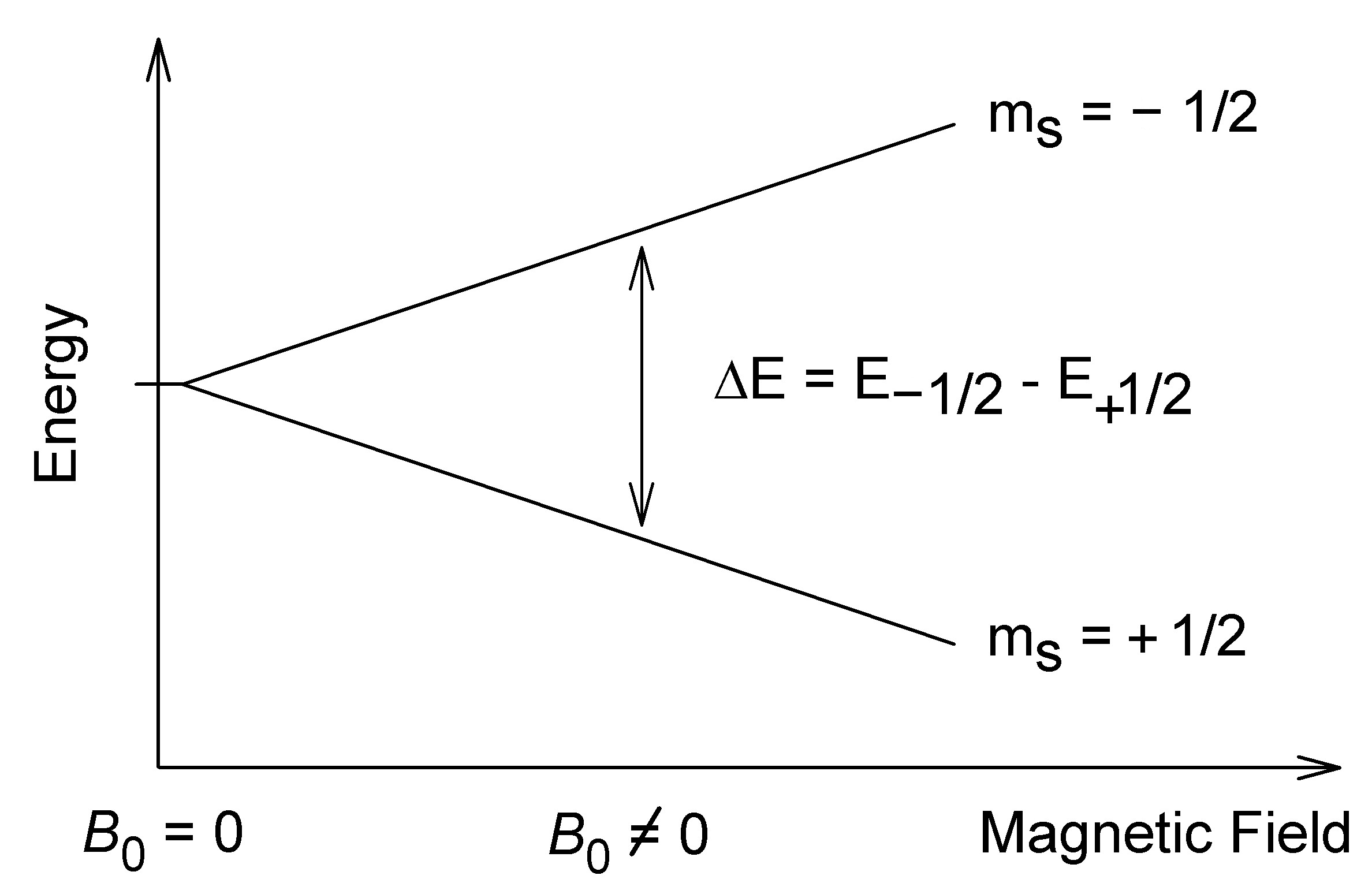 This is an adaptation of EPR splitting.gif which is located on the EPR page in order to suit the NMR page.